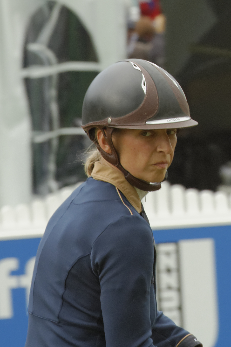 Internationales Pfingstturnier Wiesbaden 2013 The making of this document was supported by the Community-Budget of Wikimedia Germany.